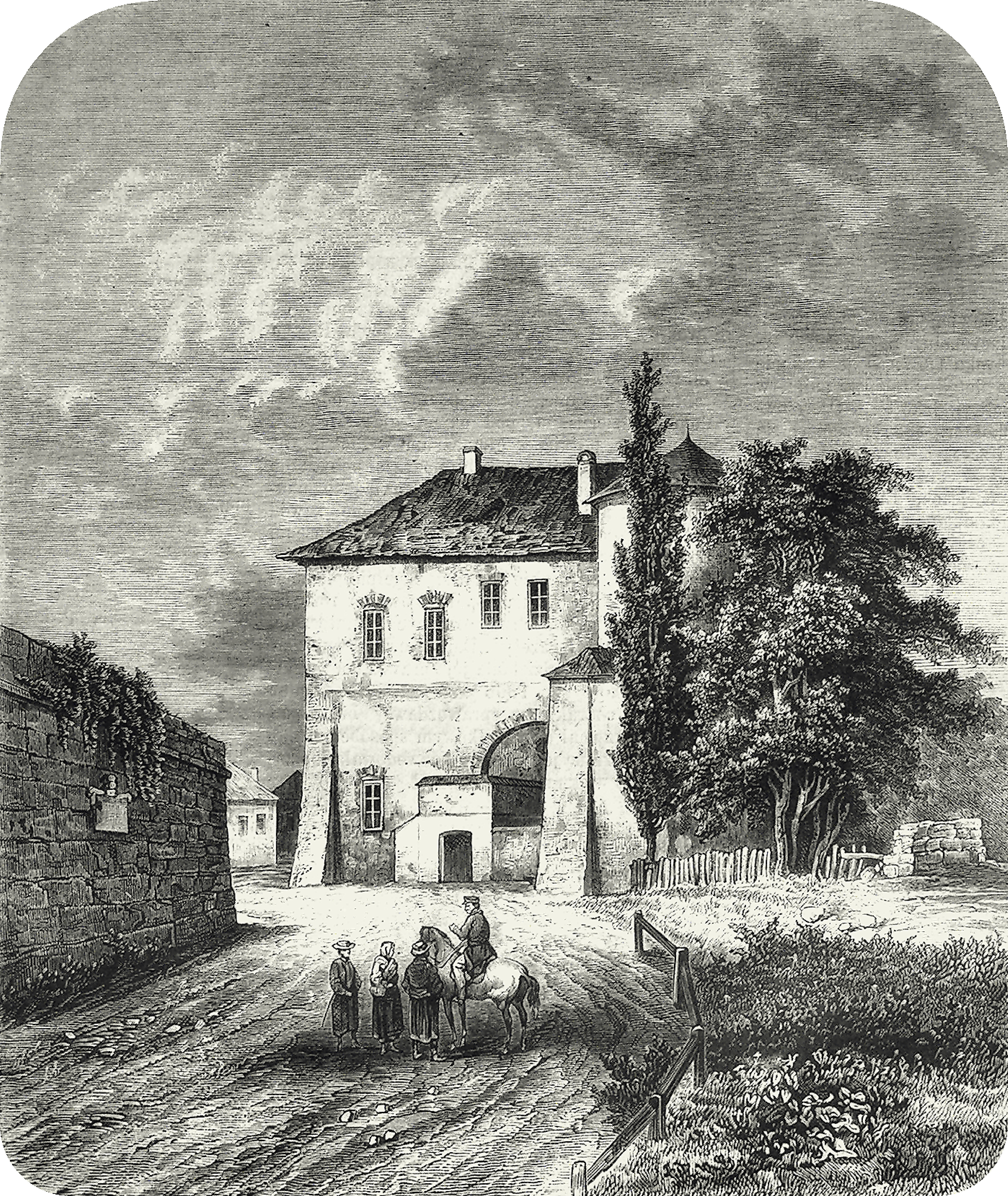 Renaissance House of Barianowie-Rokiccy